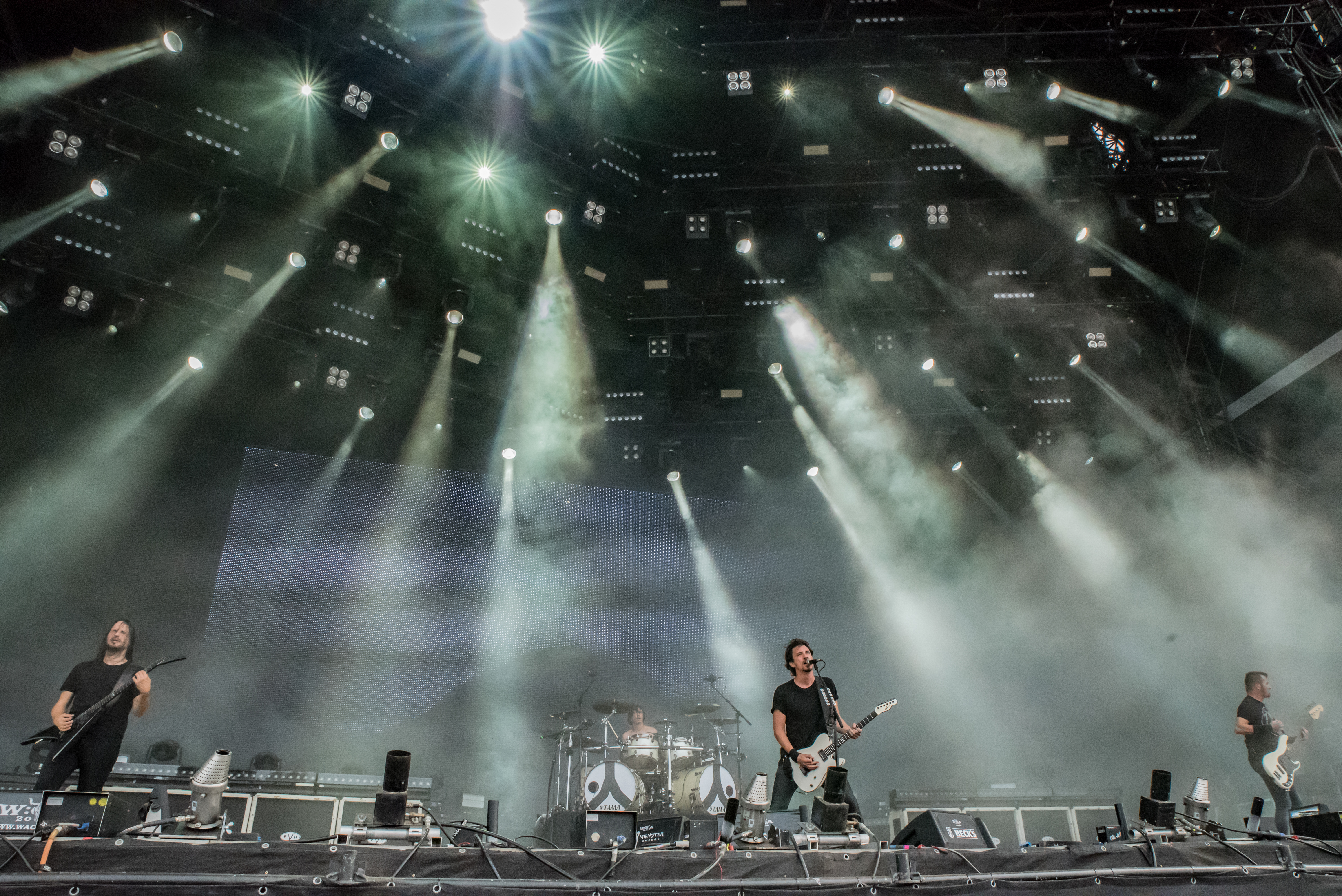 Gojira - Wacken Open Air 2018